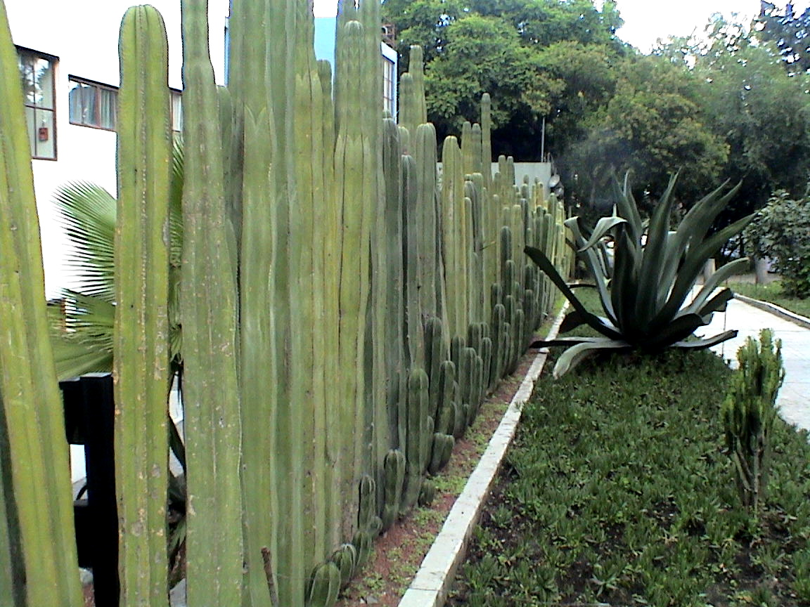 Cactus fence, surrounding house of Frida Kahlo and Diego Rivera in San Ángel, Mexico D.F.